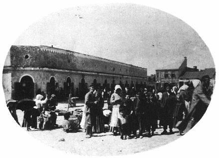 Jewish bodens in Szydłowiec